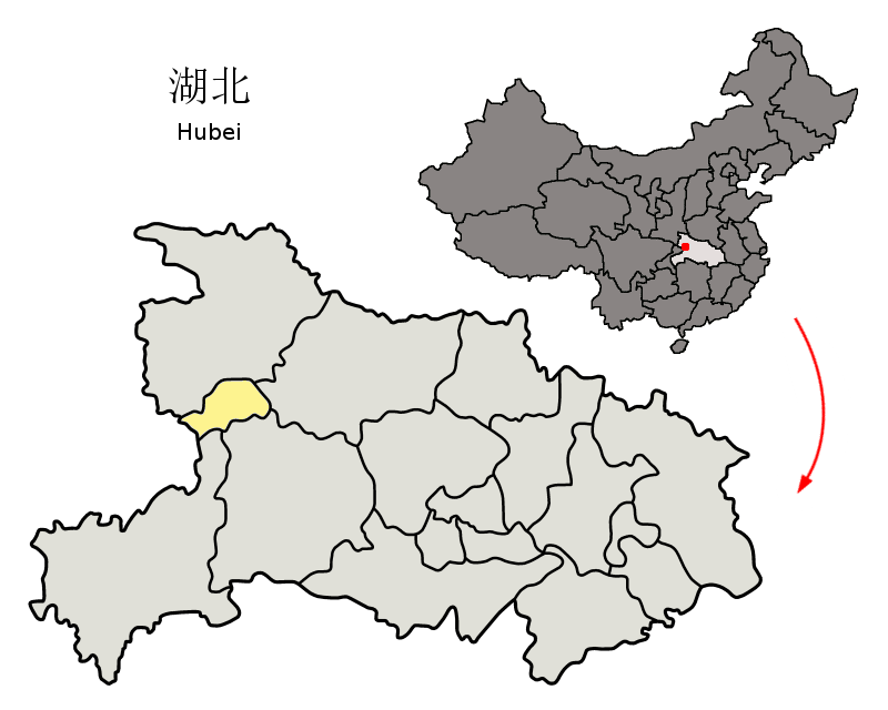 Location of Shennongjia Forestry District (yellow) within Hubei Province of China Map drawn in december 2007 using various sources, mainly : Hubei Province administrative regions GIS data: 1:1M, County level, 1990 Hubei Counties map from